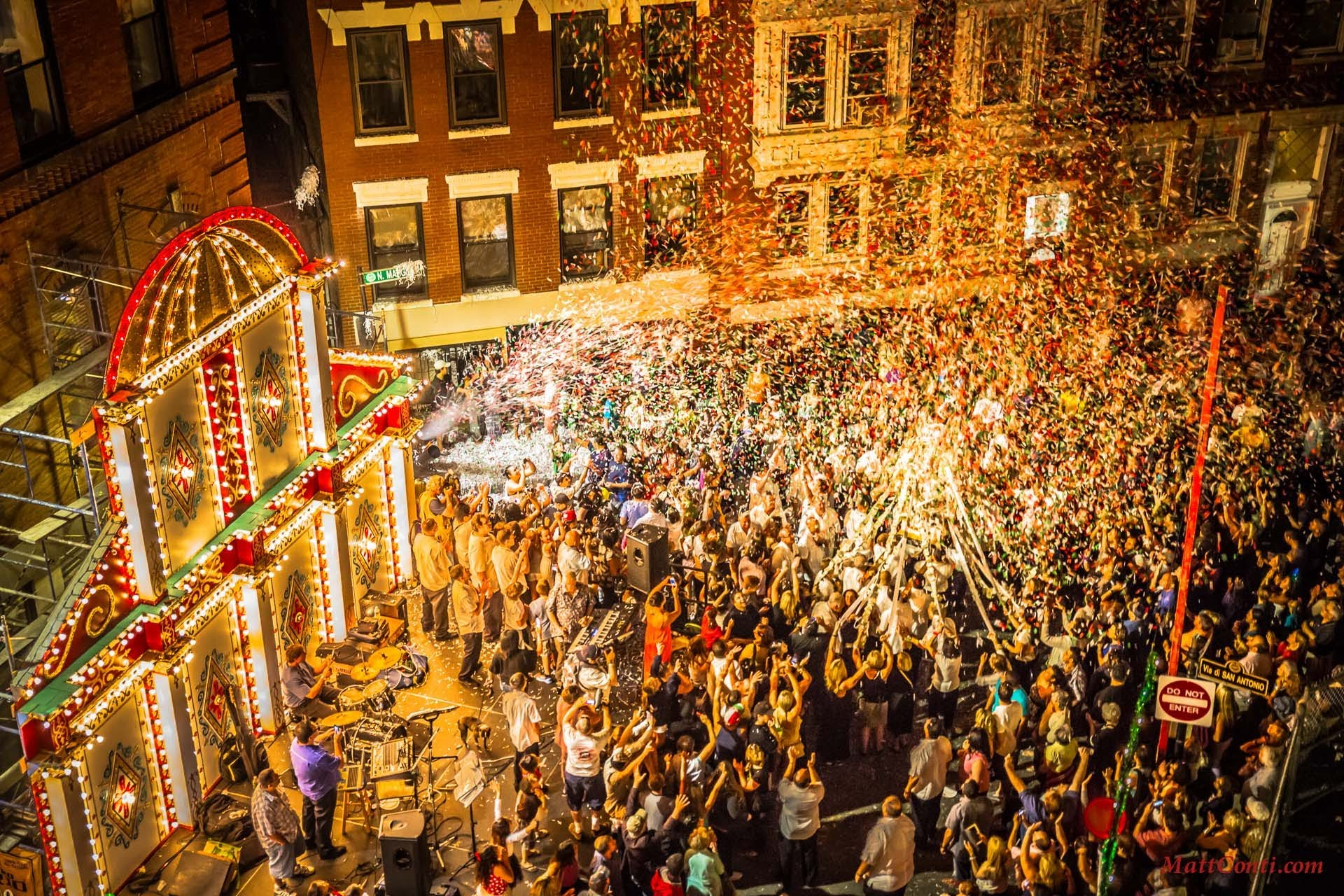 2013 08 94th St. Anthony's Feast in Boston's North End